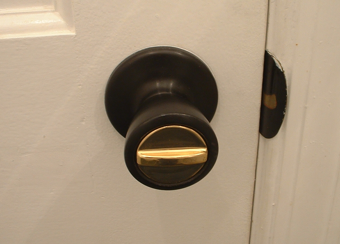 Door Knob (USA Standard) for room doors, this one can be locked from one side.